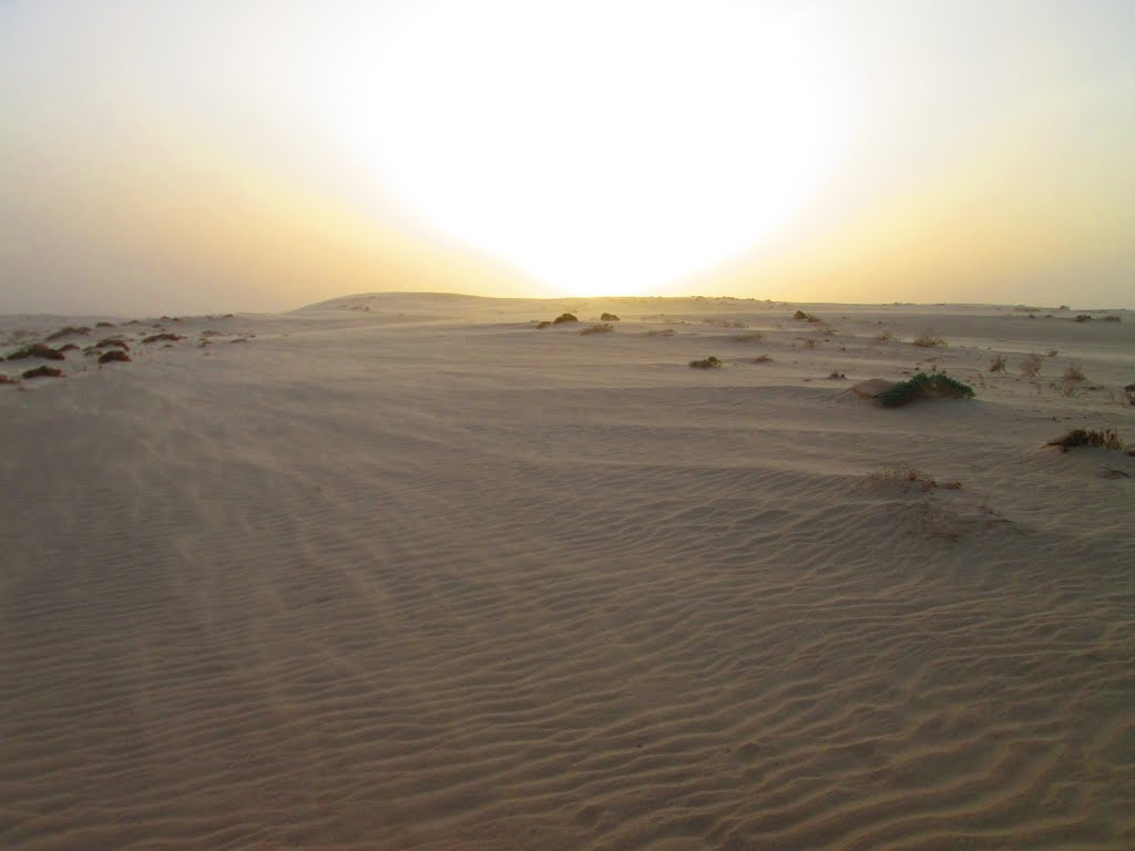 On the dunes at Nefta, Tunisia. The film location of the escape pod scenes on Tatooine in Star Wars (1977)